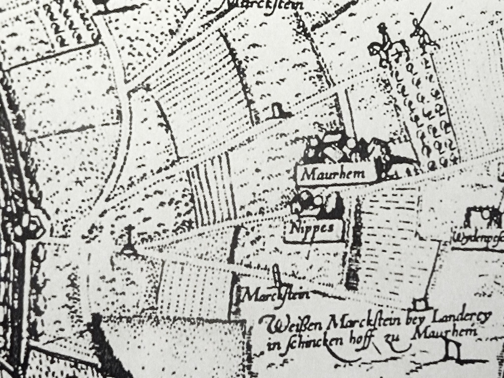 Abraham Hogenberg, Schweidkarte (nach 1609)